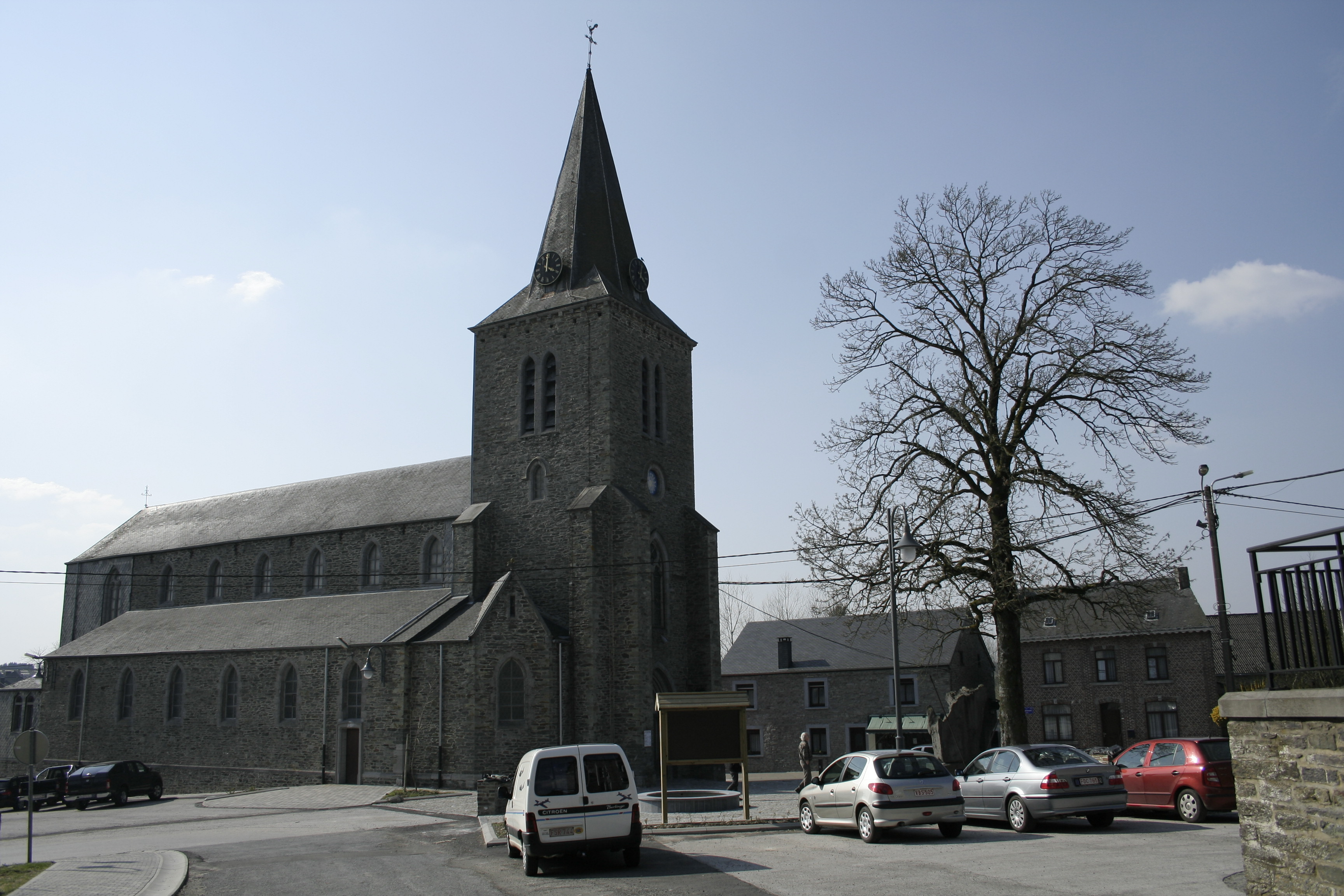 Bièvre (Belgium), the St. Hubert church (1894).